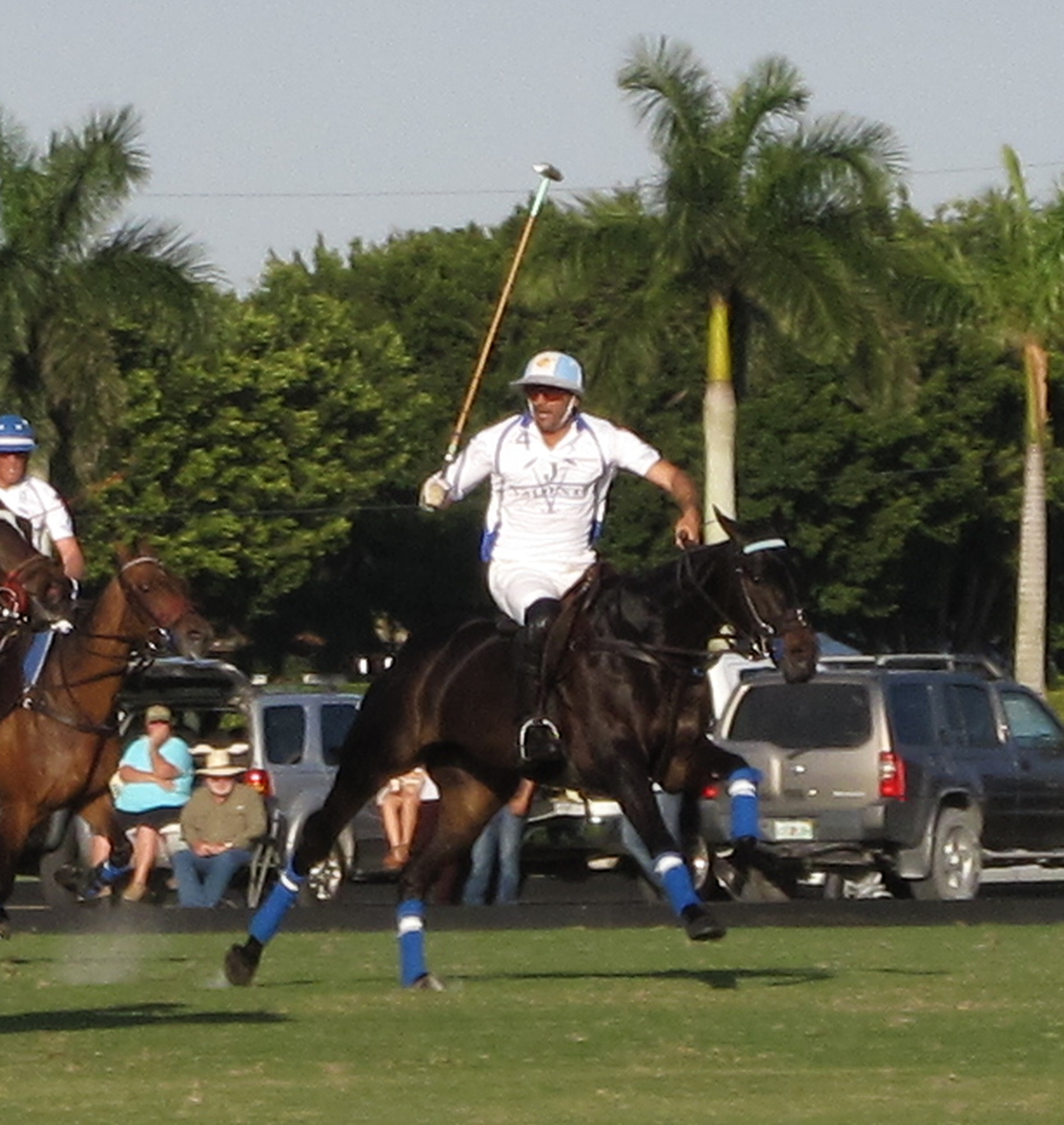 Adolpho Cambiaso, playing for Valiente in the USPA Gold Cup 26 goal polo tournament against Coca Cola, at the International Polo Club, Palm Beach. Cambiaso wears the distinctive helmet colors of his home country, Argentina.